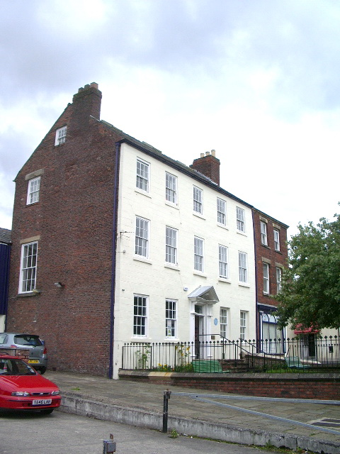 Arkwright House, Preston Sir Richard Arkwright (1732-1792). Lived here in 1768 while he developed cotton spinning machines. Its present use is as an office for Age Concern